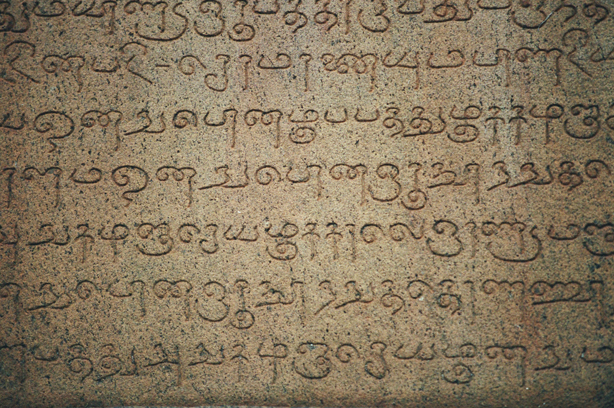 A typical lithic inscription of the Chola period. An inscription by Rajaraja Chola I at the Brihadisvara temple in Thanjavur. An example of the Vatteluttu alphabet from an inscription by Raja Raja Chola I at the Brihadisvara temple in Thanjavur. Къарачай-малкъар: 11 джюзджыллыкъда тамил тилде джазма эсгертме.